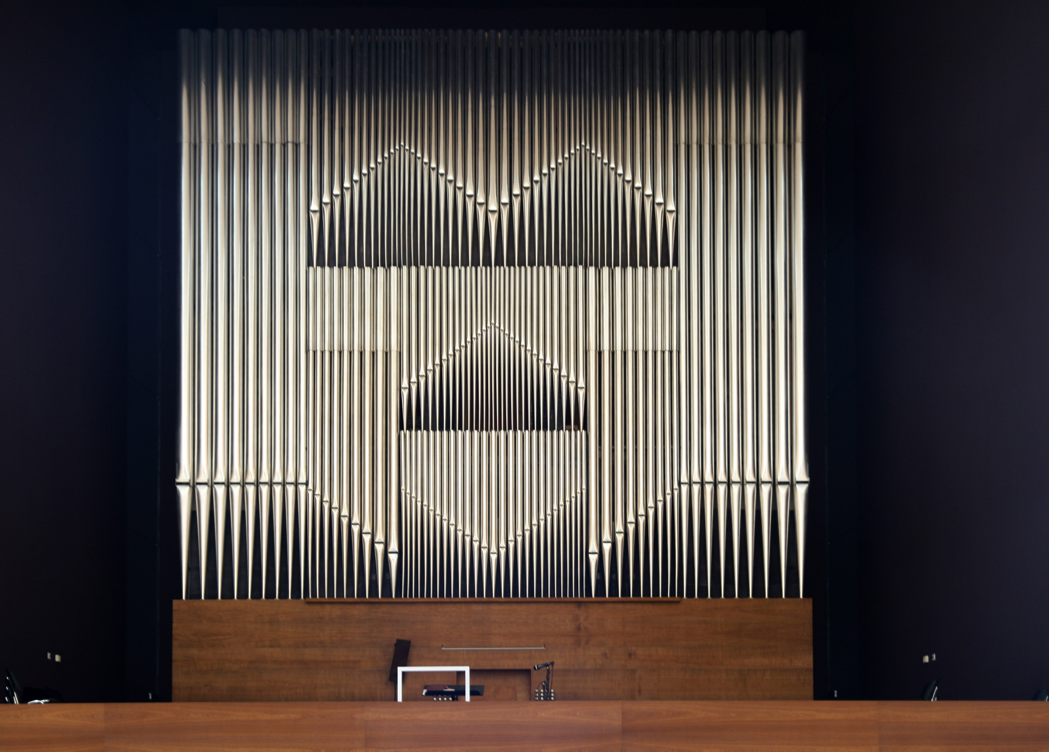 Organ of the Sacred Heart Church, Munich, Germany